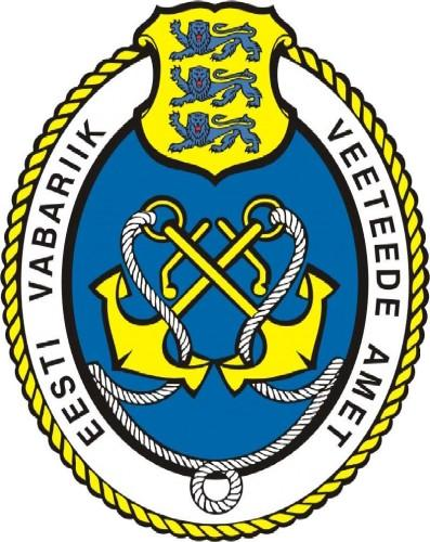 Coat of arms of Estonian Maritime Administration